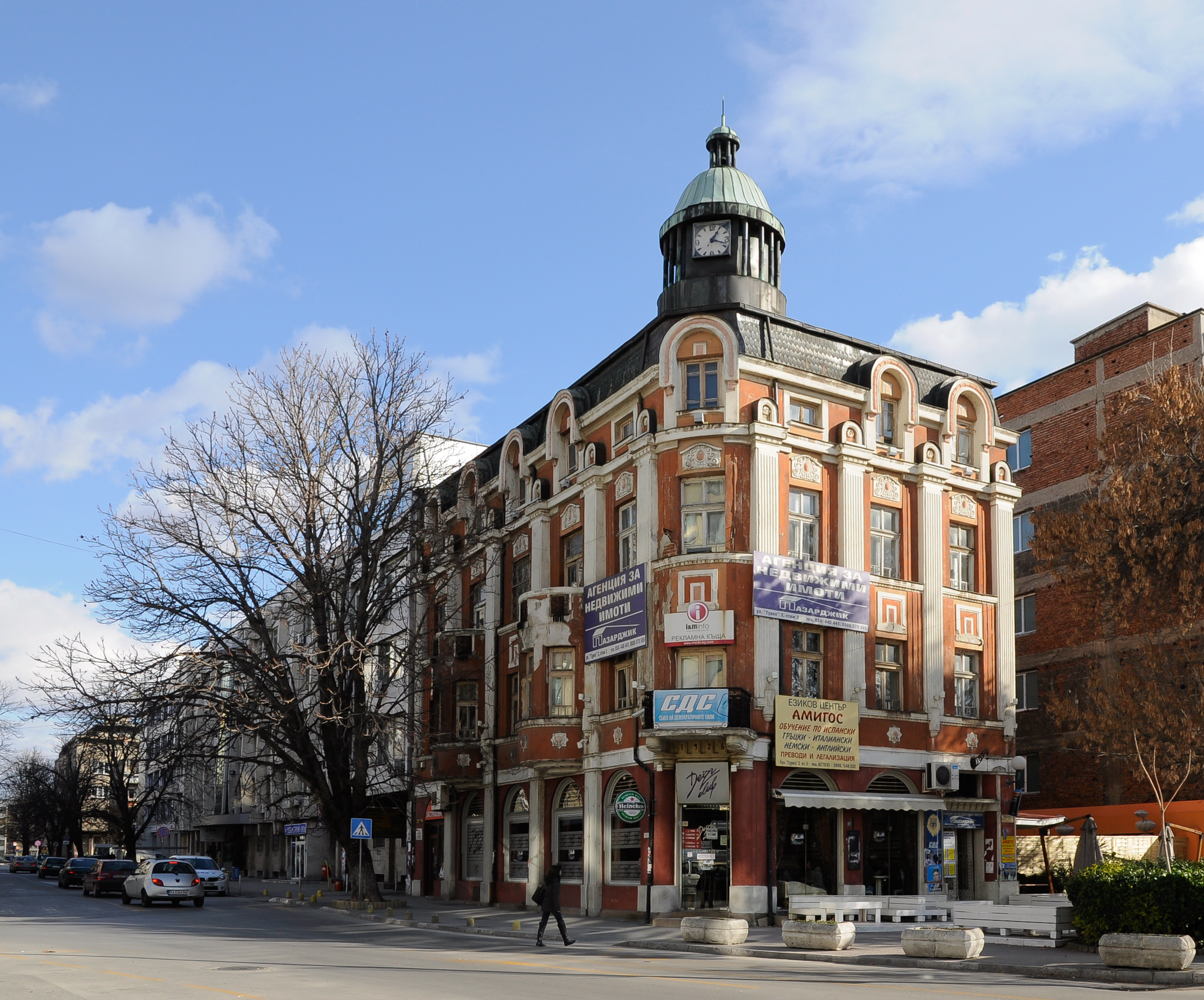 Old building on General Gurko boulevard in Pazardzhik, Bulgaria.